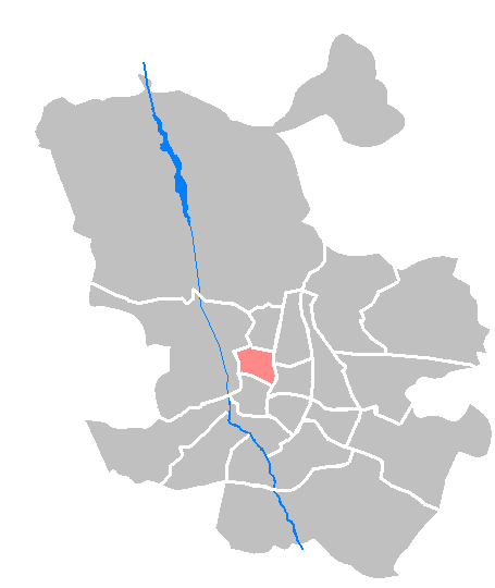 Locator maps of districts in Madrid: Maps - ES - Madrid - Chamberi.PNG